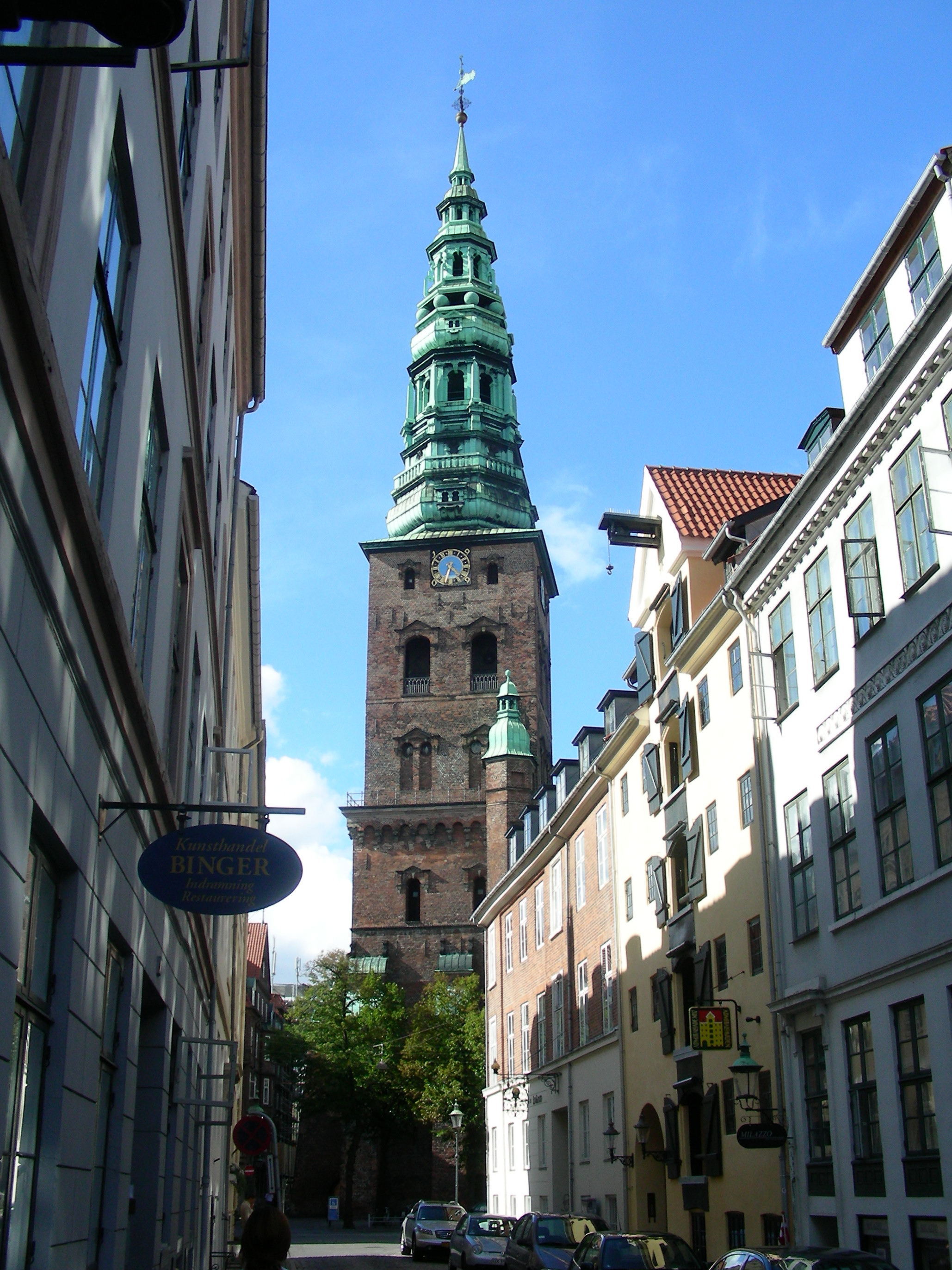 Nikolaj exhibition building, Copenhagen, Denmark The tower seen from Admiralgade